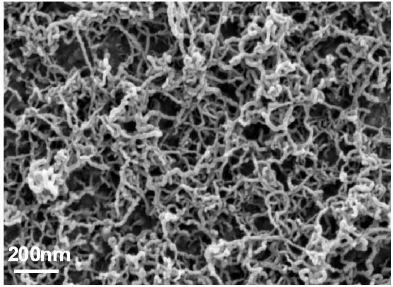 Electronmicroscopy image of siliconenanofilaments